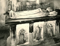 Tombe and effigy of Charlotte d'Albret